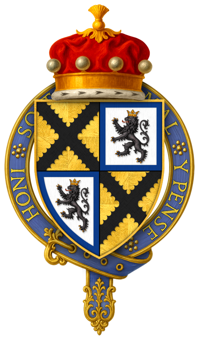 Coat of Arms of Sir Hugh Burnell, 2nd Baron Burnell, KG HOPE, W. H. St. John, ‘’The Stall Plates of the Knights of the Order of the Garter 1348 – 1485: A Series of Ninety Full-Sized Coloured Facsimiles with Descriptive Notes and Historical Introductions,’’ Westminster: Archibald Constable and Company LTD, 1901. “ Sir Sir Hugh Burnell, Lord Burnell, K.G. 1406-1420... quarterly: 1 and 4, gold a saltire engrailed sable (for Botetourt); 2 and 3, silver a crowned lion sable and a bordure azure (for Burnell)... ” This blazon should be reversed as the shield is reversed on Lord Burnell's stall plate.